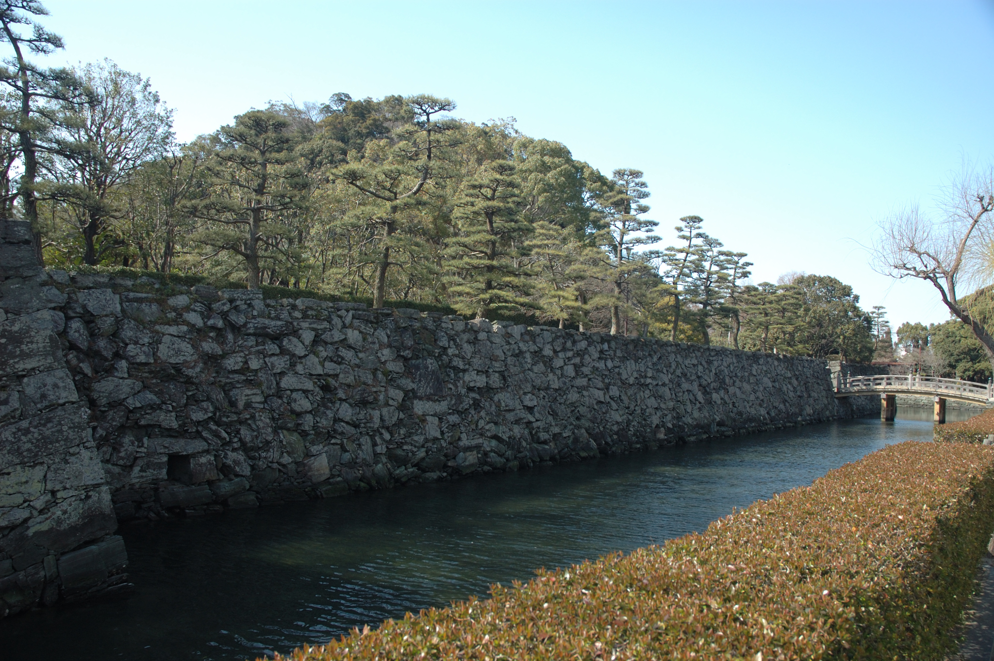 moat, stone wall and Shiroyama hill